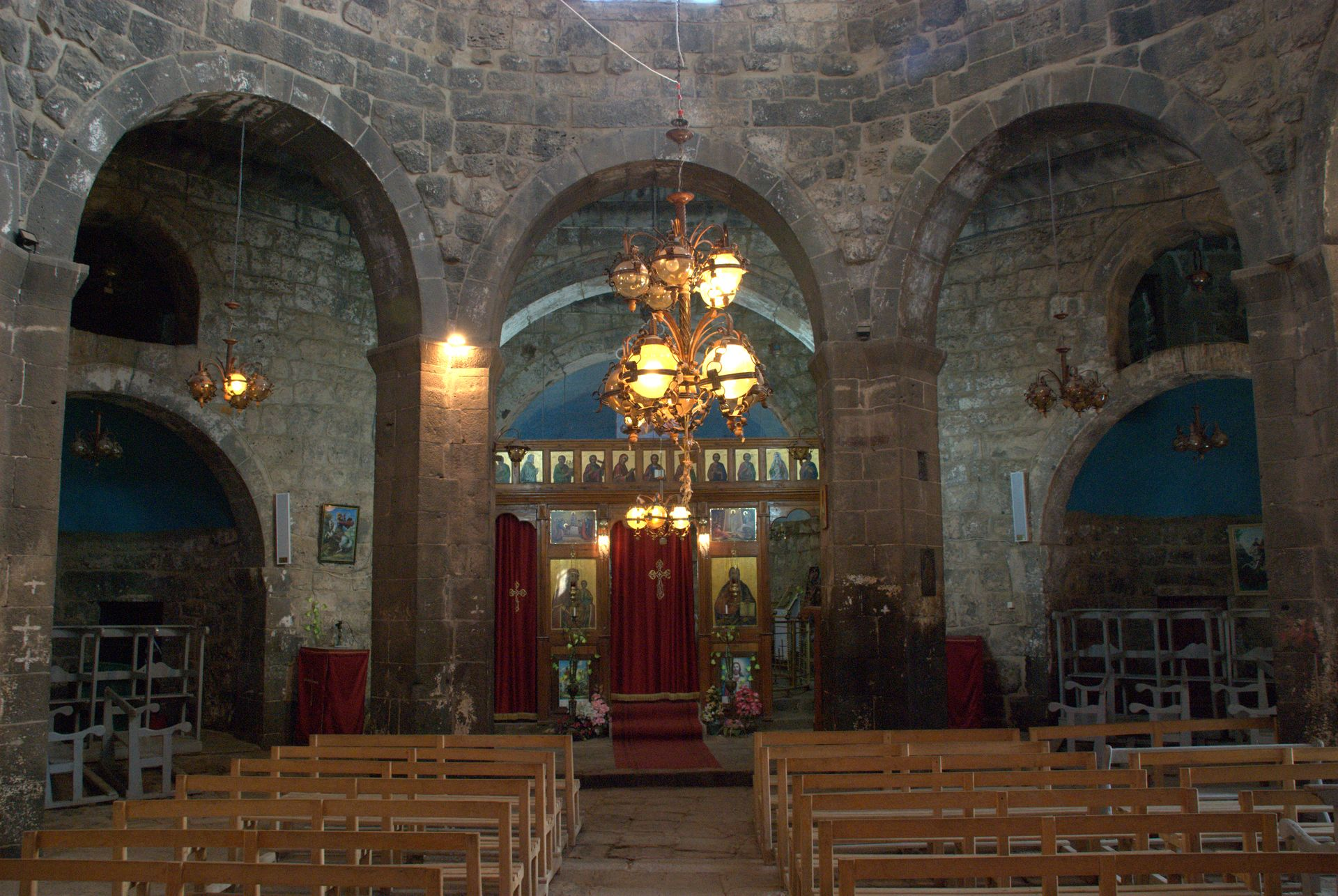 Izra, Syria, Basilica of St George